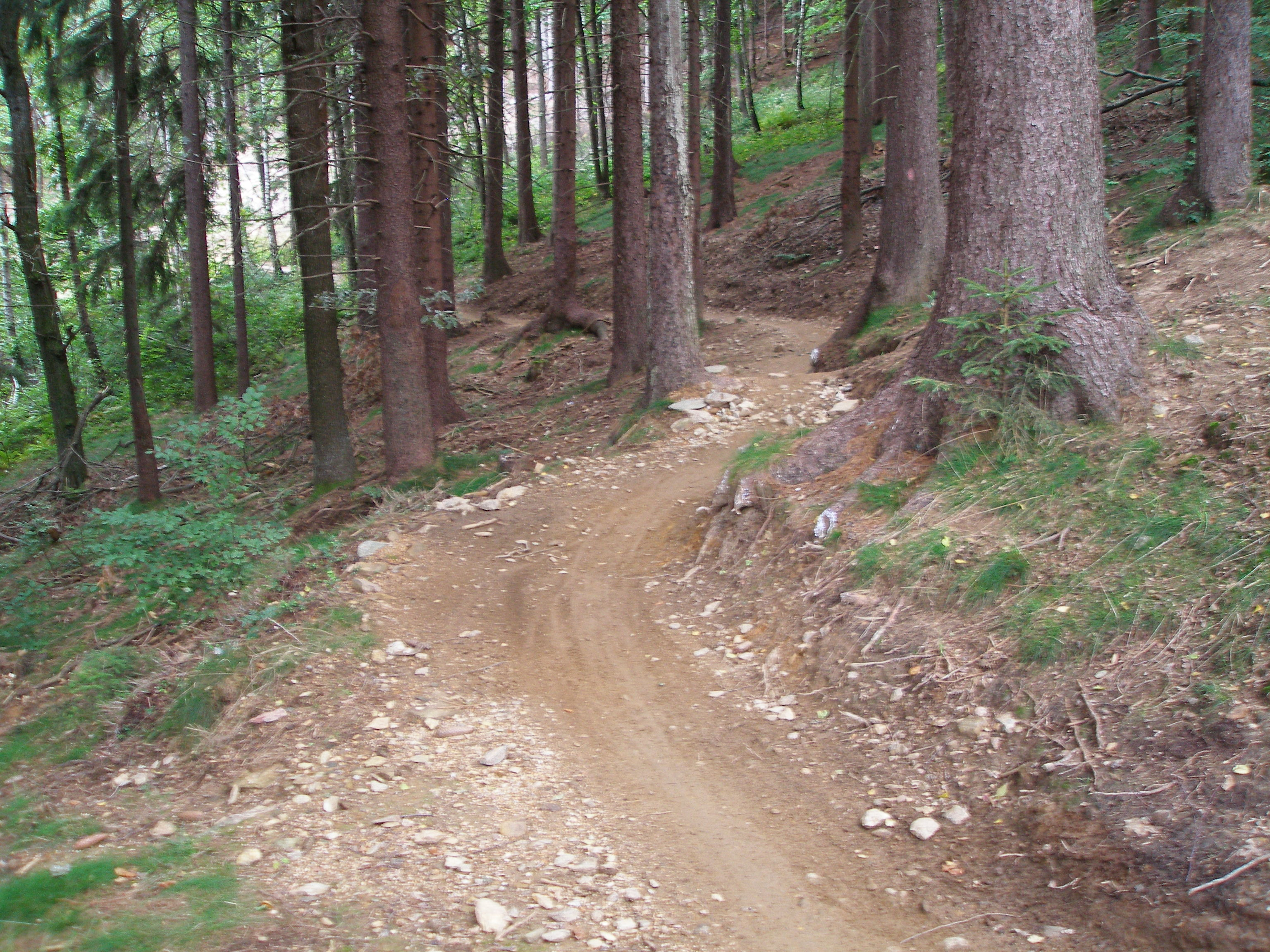 Singltrek pod Smrkem, Jizera Mountains, Lázně Libverda